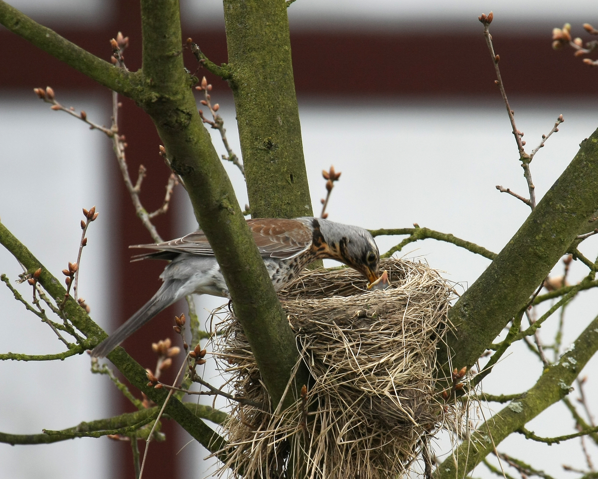 Filedfare